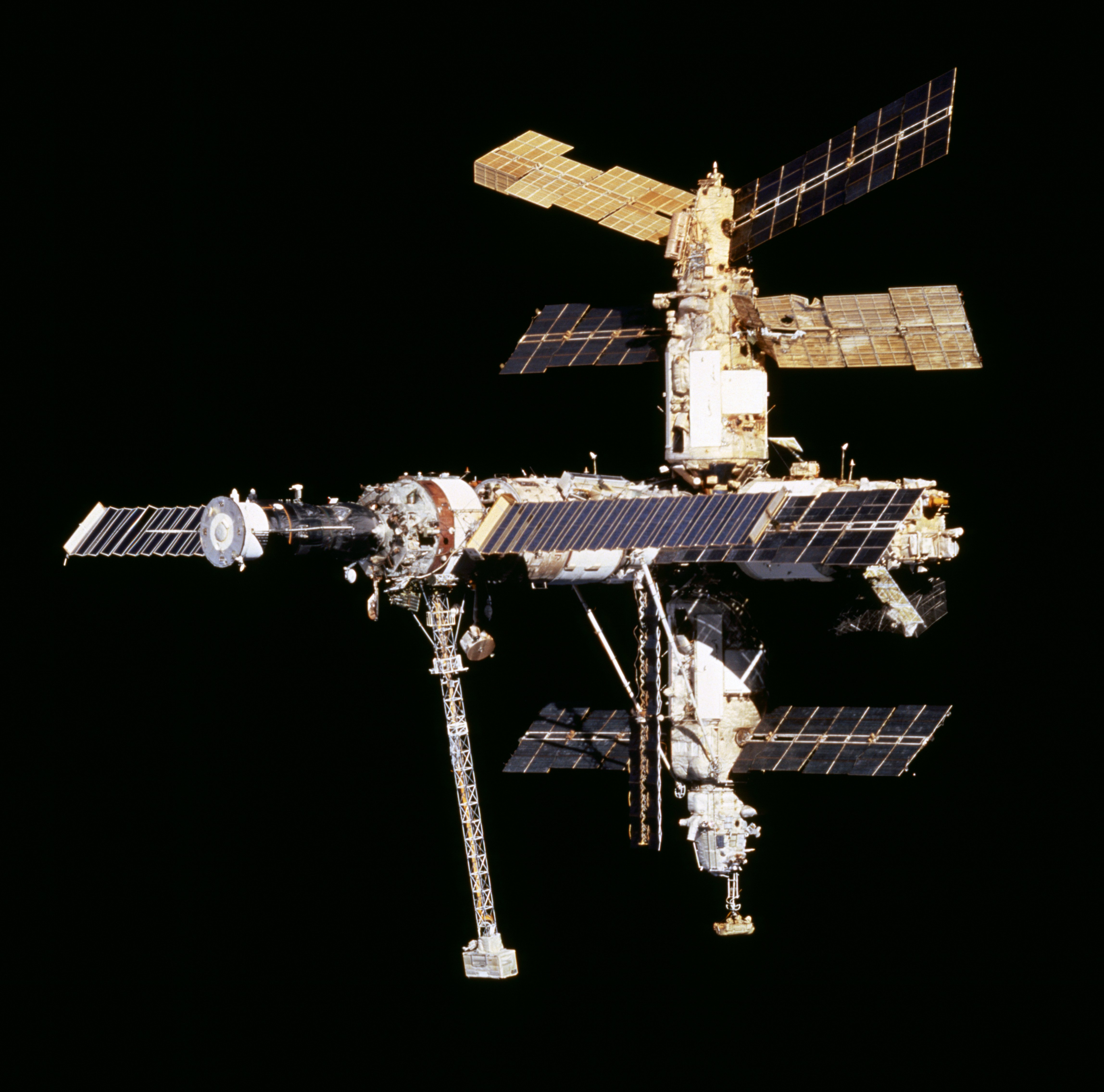 Survey views of the Mir Space Station during flyaround. Mir is backdropped by the Earth and also by the blackness of space. View STS091-711-020 was selected by PAO for release to the public; view STS091-711-028 was selected by the crew for use in their postflight presentation.